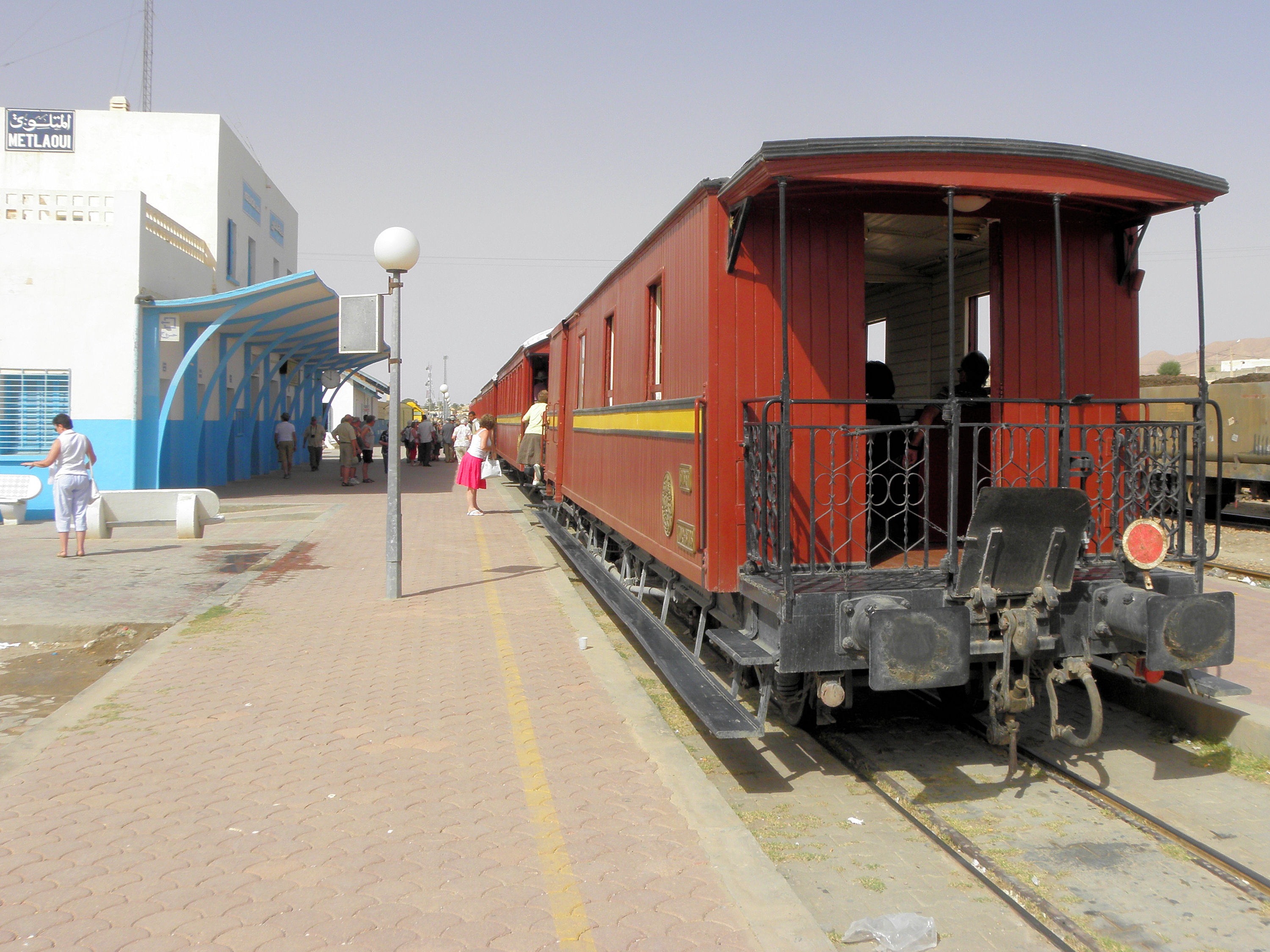 Red Lizard Train (Lézard Rouge) at Metlaoui, Tunisia